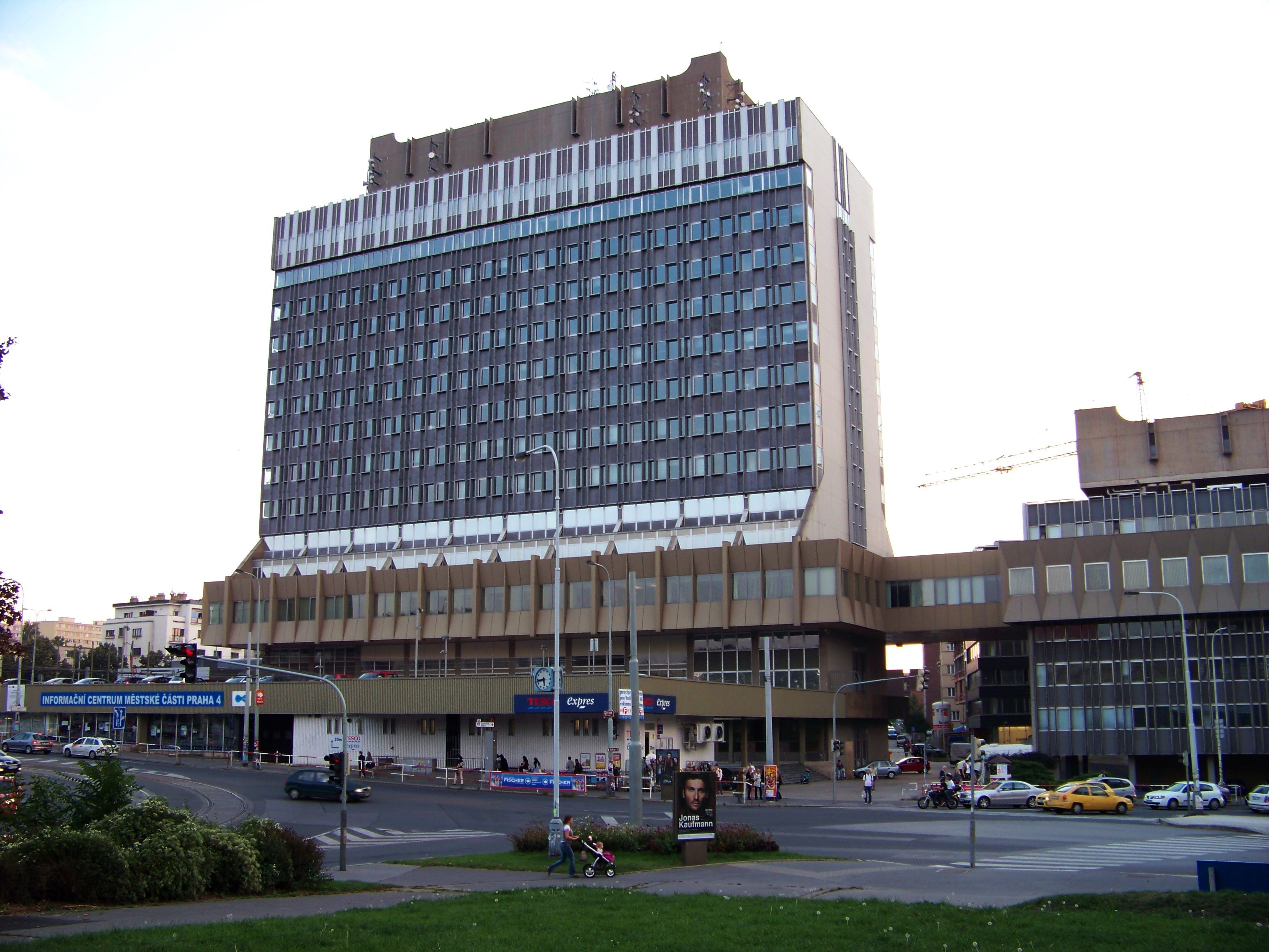 Prague-Nusle, the Czech Republic. Pankrác, Hrdinů Square, Centrotex building.